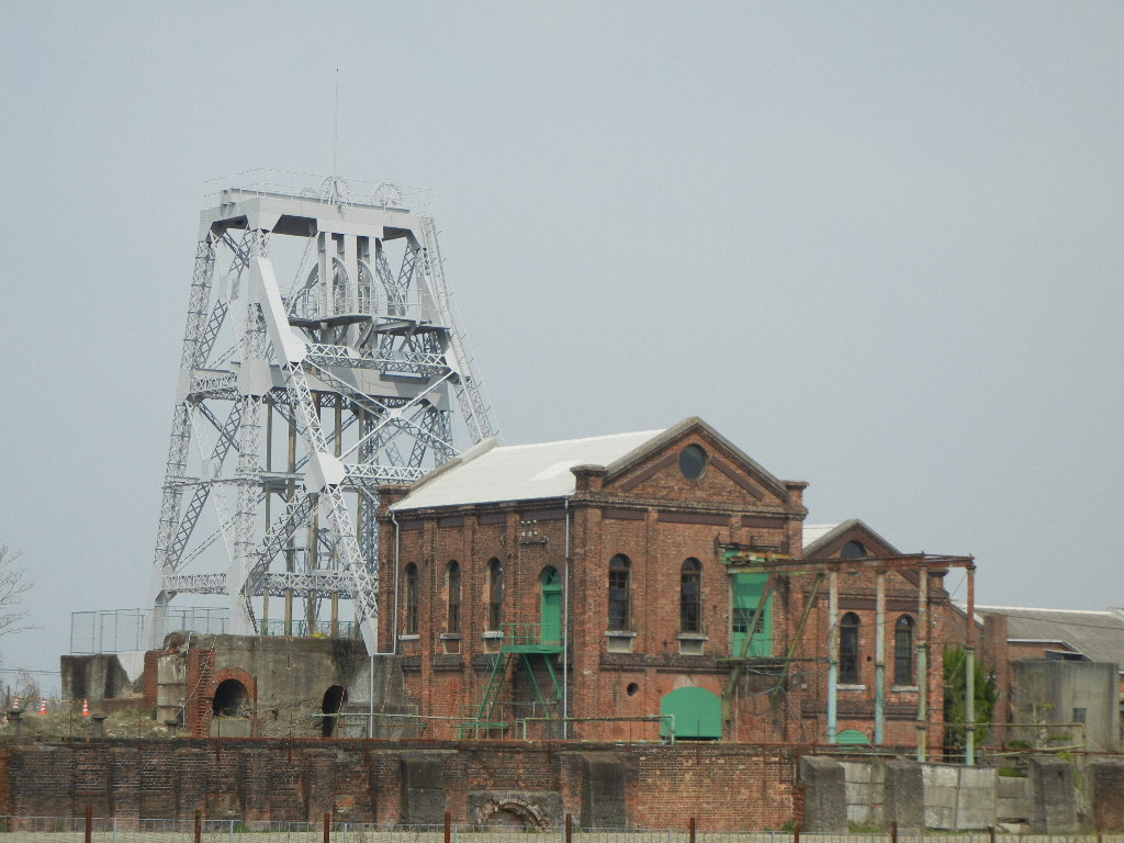 Mandakou. 荒尾市にある万田抗跡, Arao.